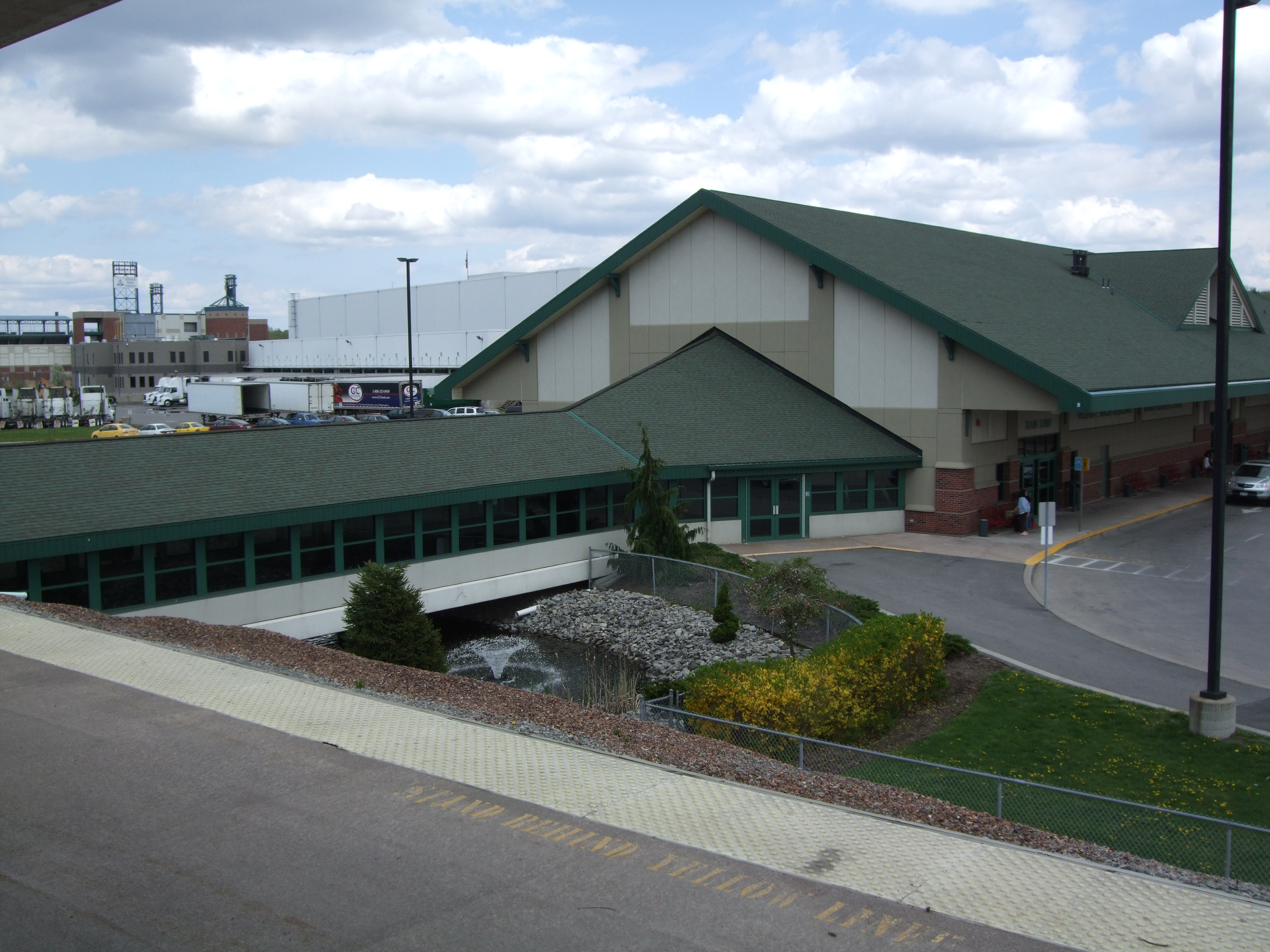 The William F. Walsh Transportation Center in Syracuse, New York.